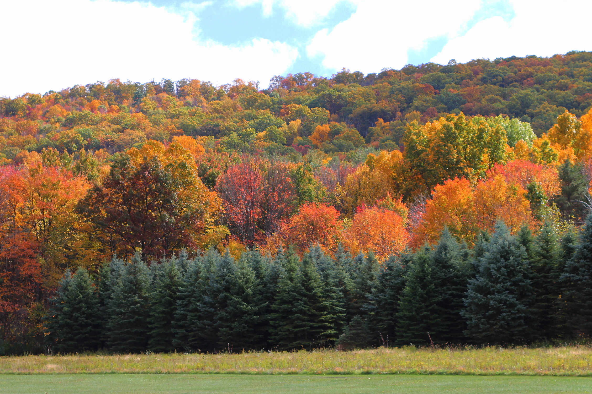 Closeup of trees on McCauley Mountain